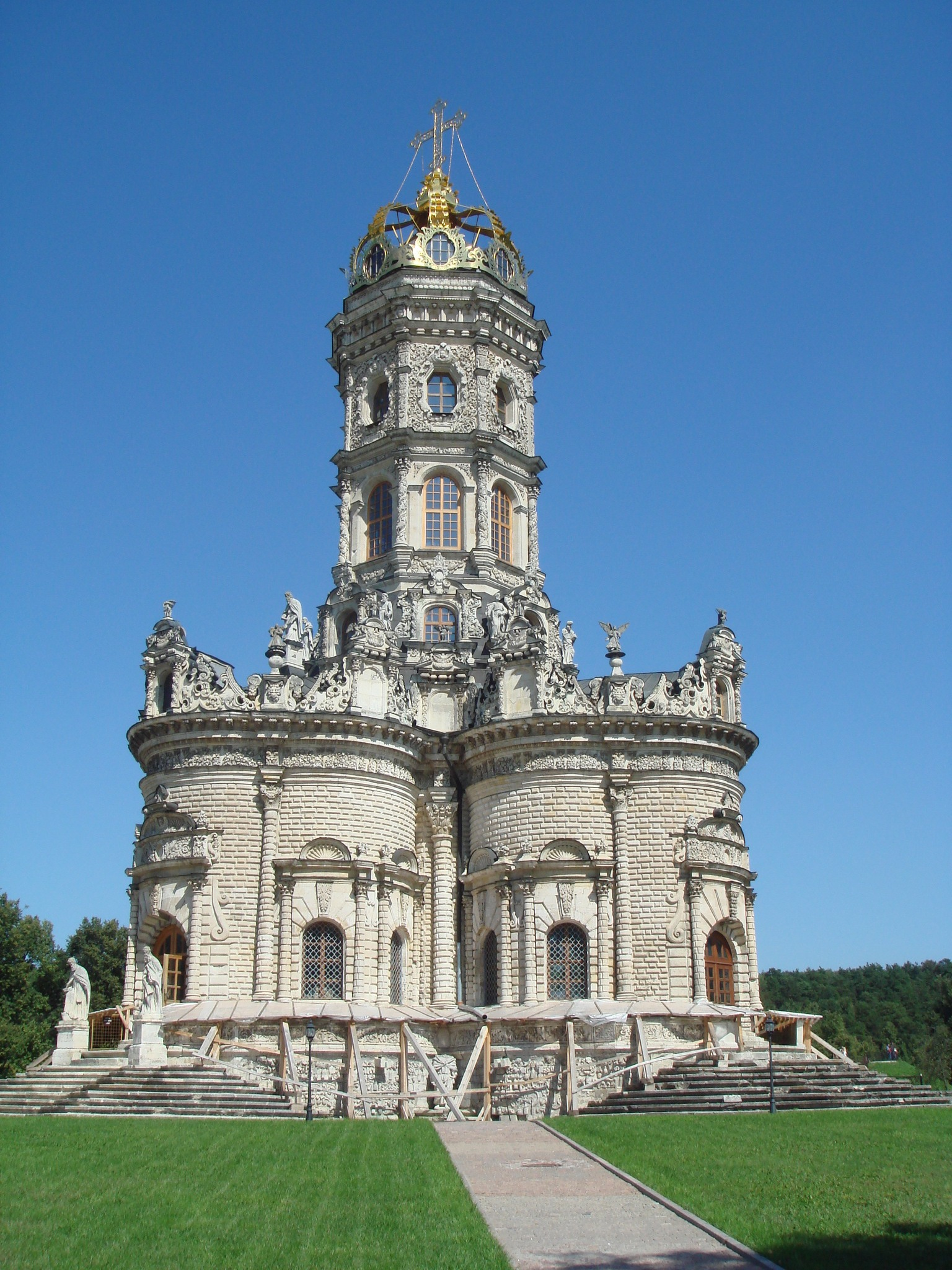 Church of the Sign in Dubrovitsy, Moscow region, Russian Federation